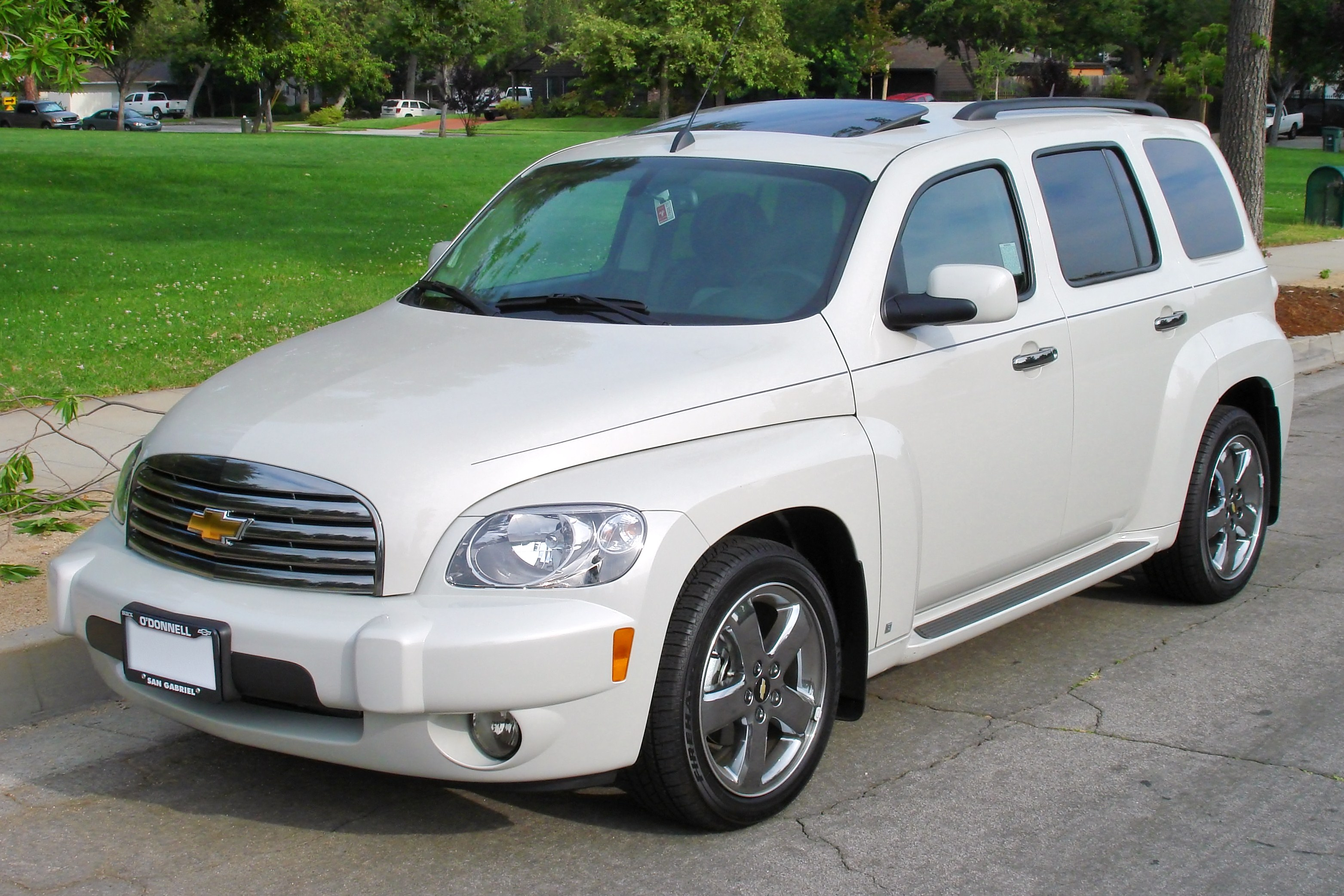 2007 Chevrolet HHR 2LT Special Edition. Camera used was a Sony Ericsson DSC-W100.